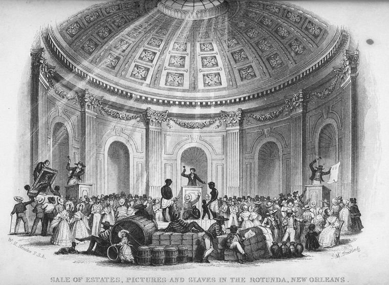 "Sale of estates, pictures and slaves in the rotunda, New Orleans." Engraved by J.M. Starling after work by William Henry Brooke, 1842 Probably depicts auction under the dome of either the St. Louis Hotel or the St. Charles Hotel. Note: Web source (used because best available resolution found) gives date as "1853", various other dates seen on internet, but 1842 for original publication seems most reliable (eg [1], [2])